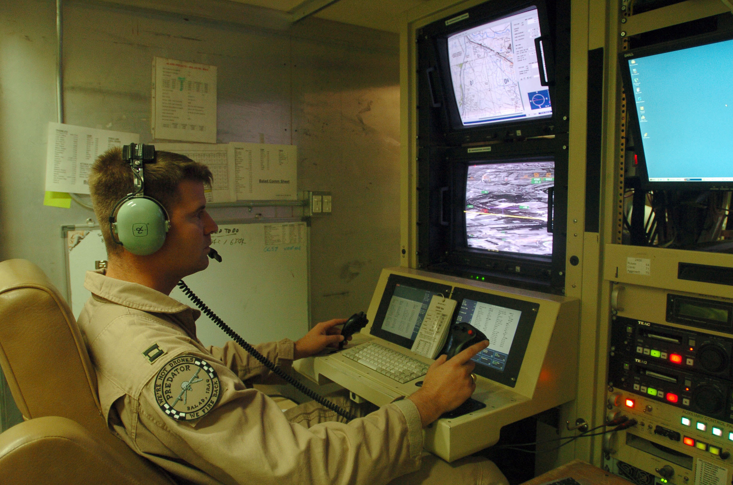 United States Air Force Captain John Songer maneuvers an unmanned MQ-1 Predator reconnaissance airplane over Iraq by remote control at Balad Air Base, Iraq, on July 2, 2004. The Predator is an unmanned airplane that provides live aerial imagery of Iraq. Songer is deployed from the 15th Reconnaissance Squadron at Nellis Air Force Base, Nevada, in support of Operation Iraqi Freedom. DoD photo by Staff Sergeant Cohen A. Young, U.S. Air Force.